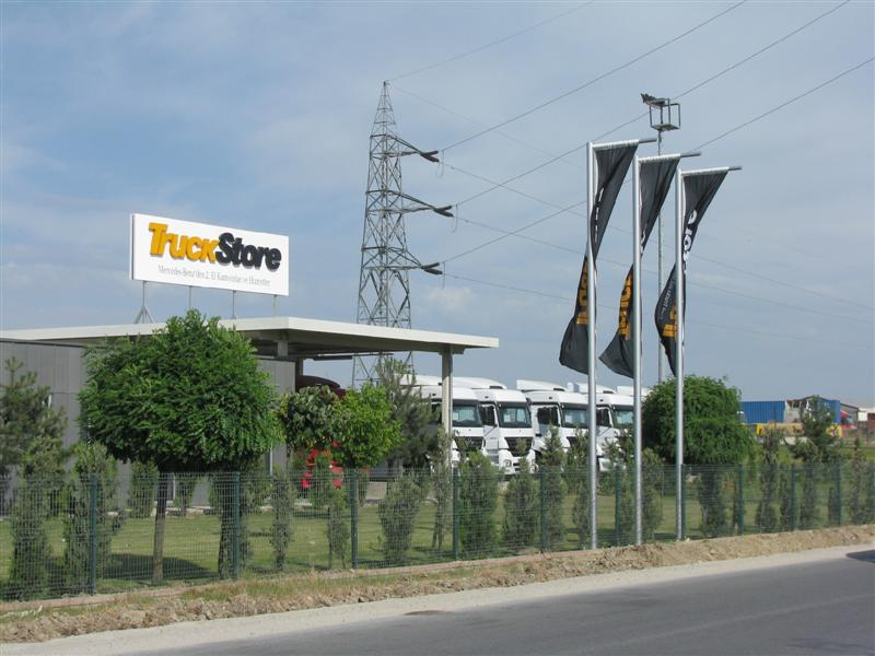 TruckStore Istanbul